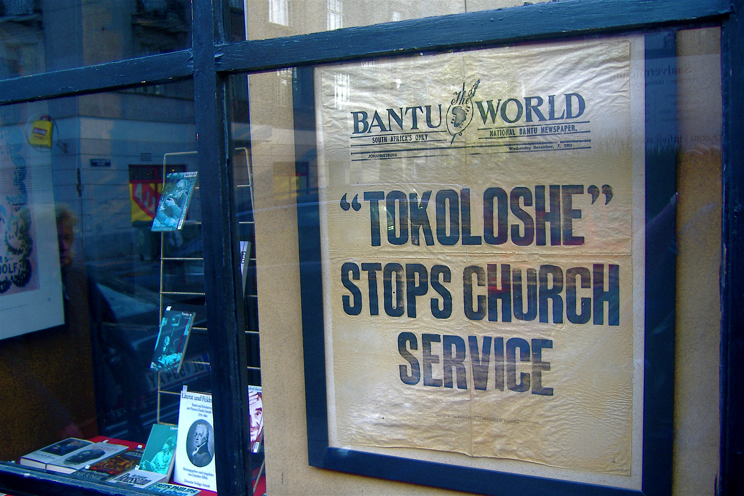 A newspaper headline from December 7, 1955, on sale in a bookstore in the 19th District, Vienna, Austria